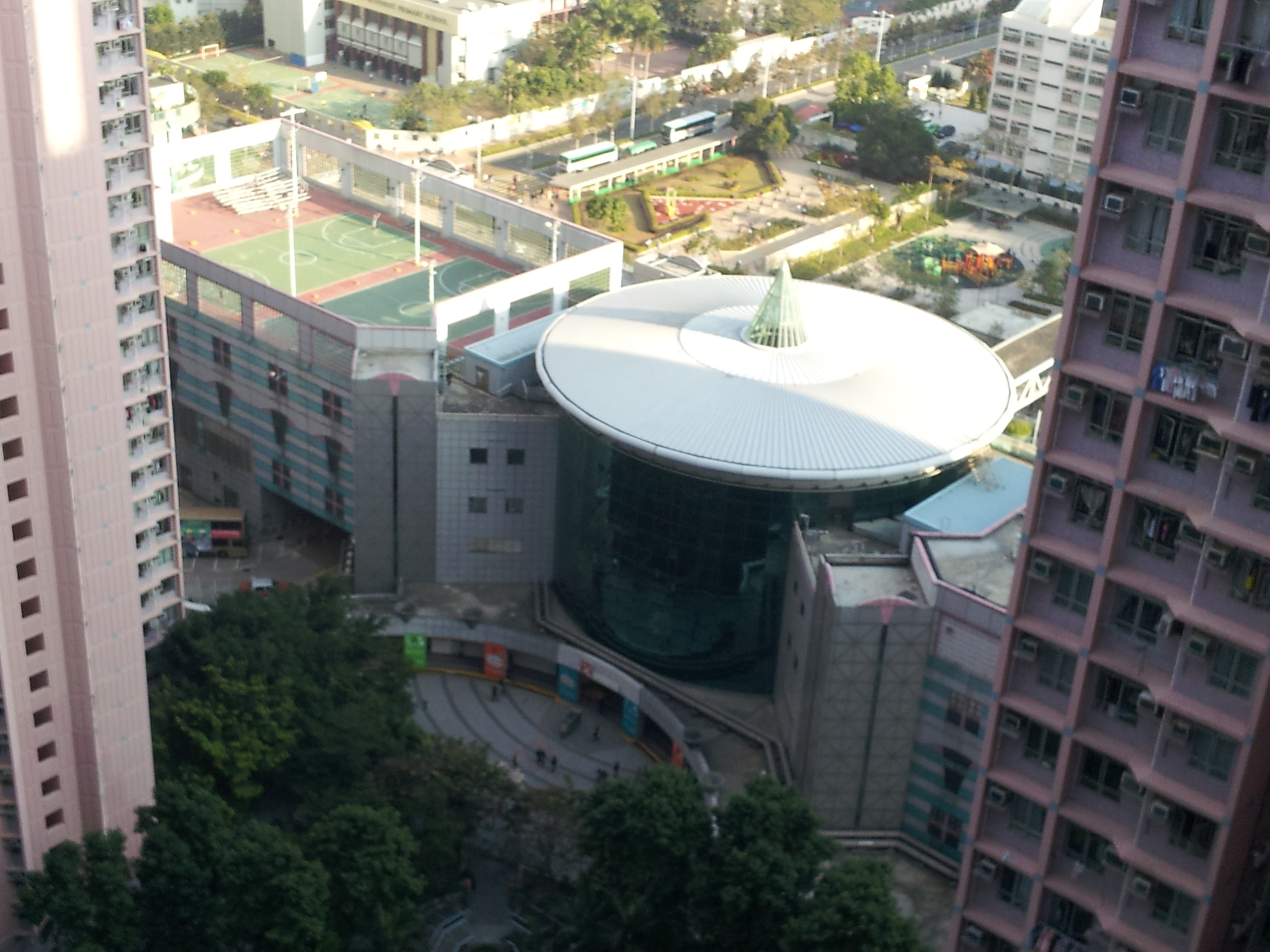 Sheung Tak Shopping Centre Dome